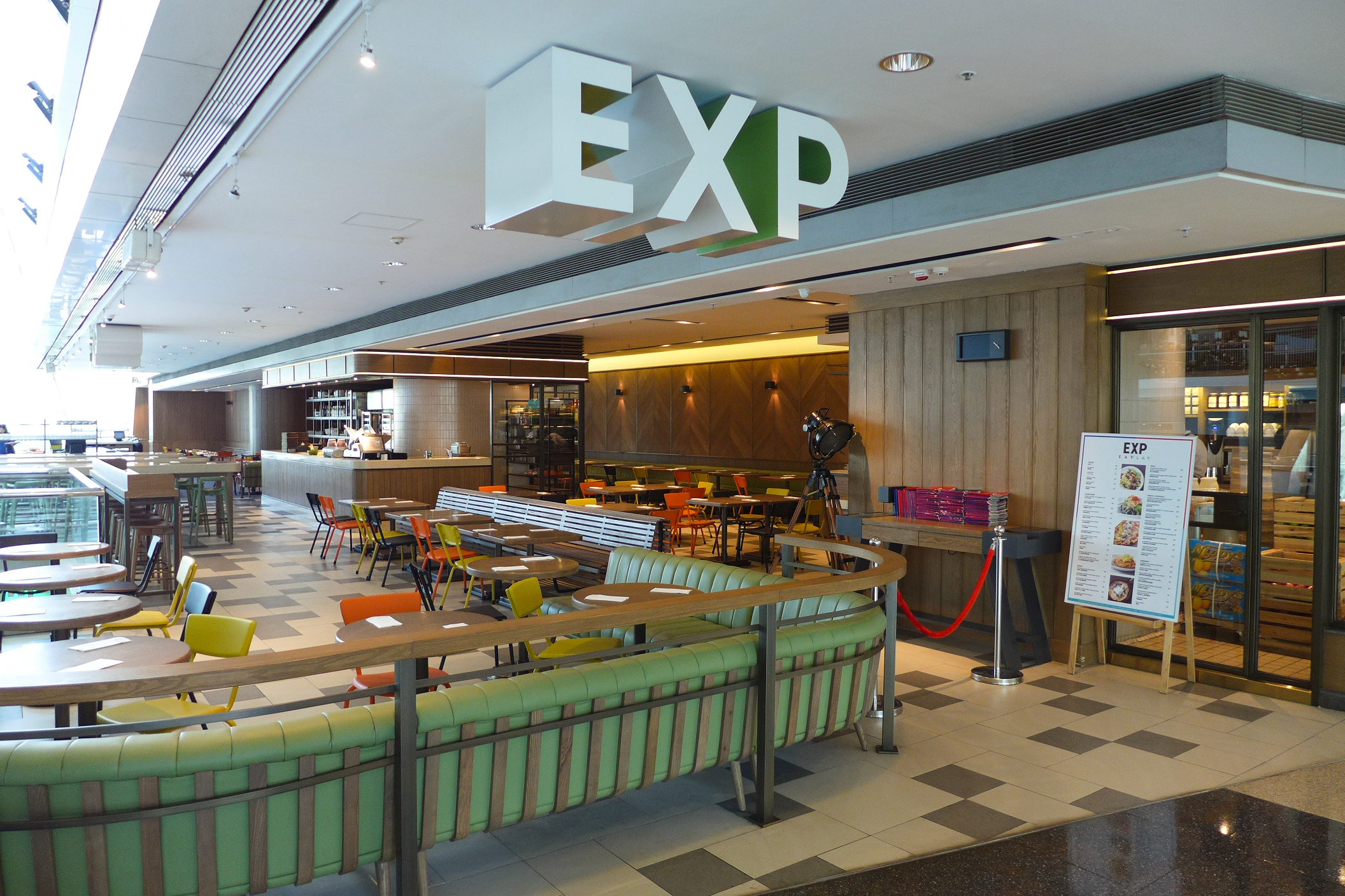 EXP restaurant in Festival Walk